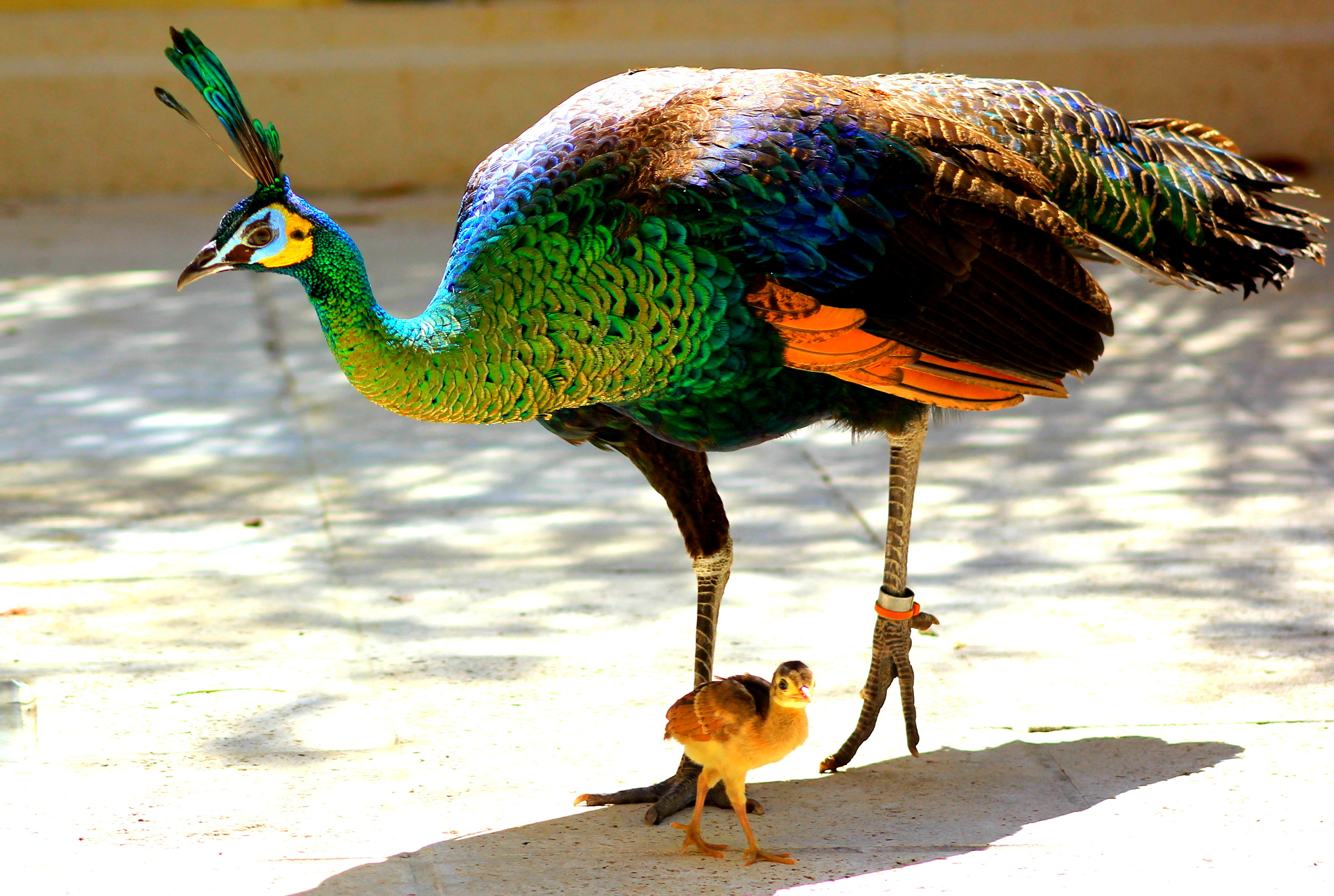 Female Green peafowl (Pavo muticus) with a chick